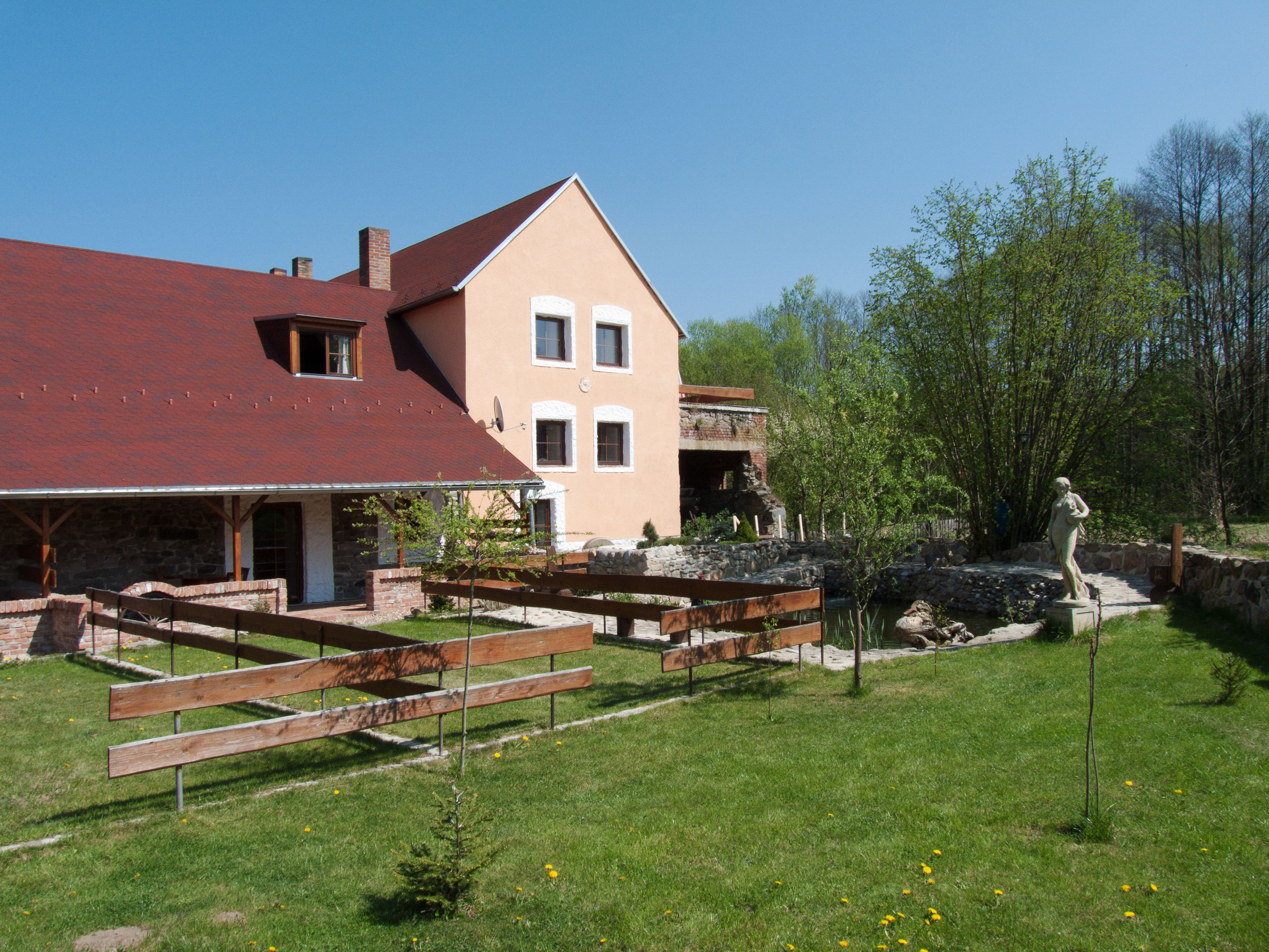 House No 9, a former mill, in the village of Přední Zborovice, Strakonice District, Czech Republic.